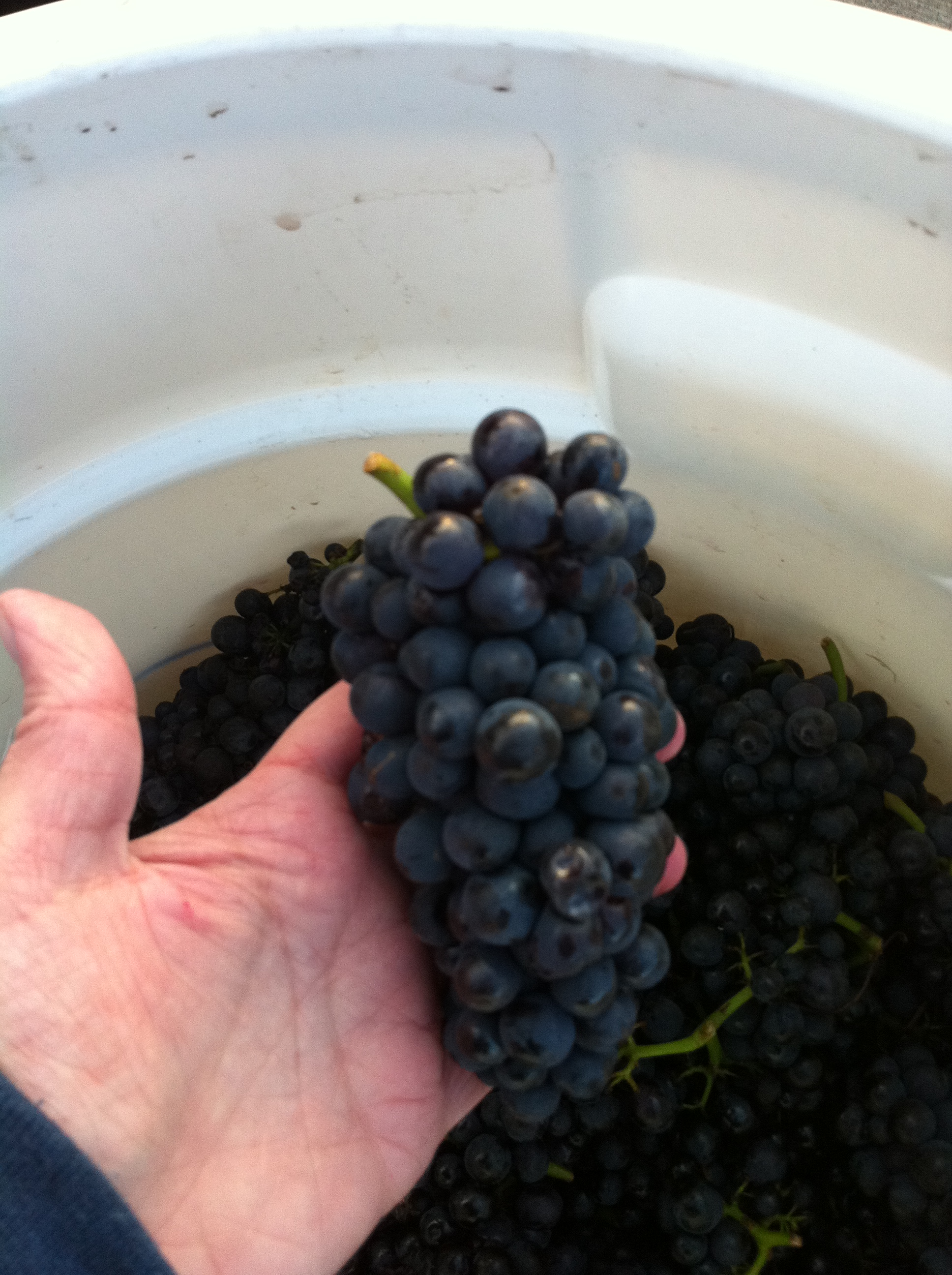 Pinot precoce grape grown in the Puget Sound AVA of Washington State